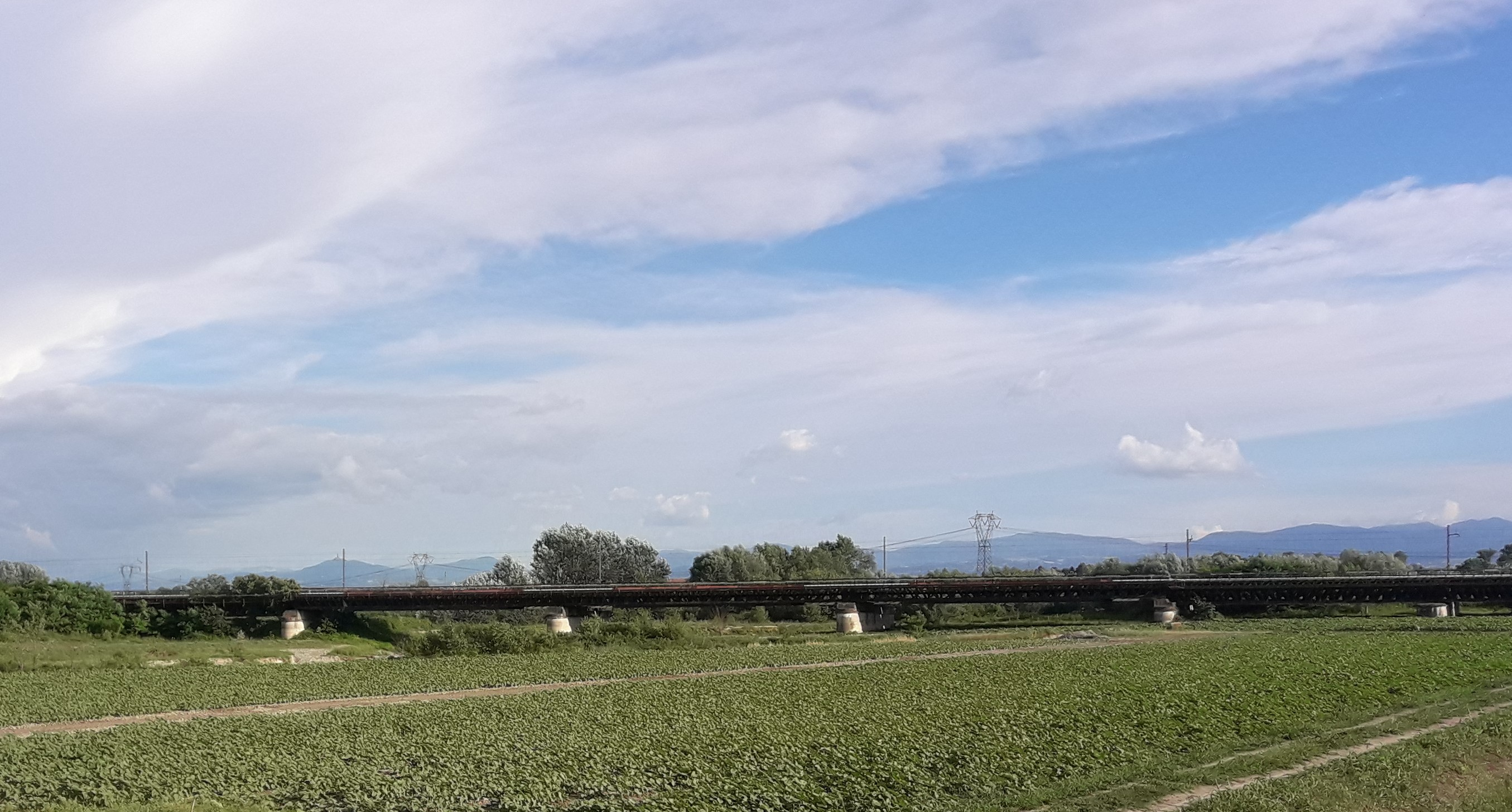 The railway bridge on the river Nure on the Piacenza-Cremona railway between the municipalities of Piacenza and Pontenure, Piacenza, Italy